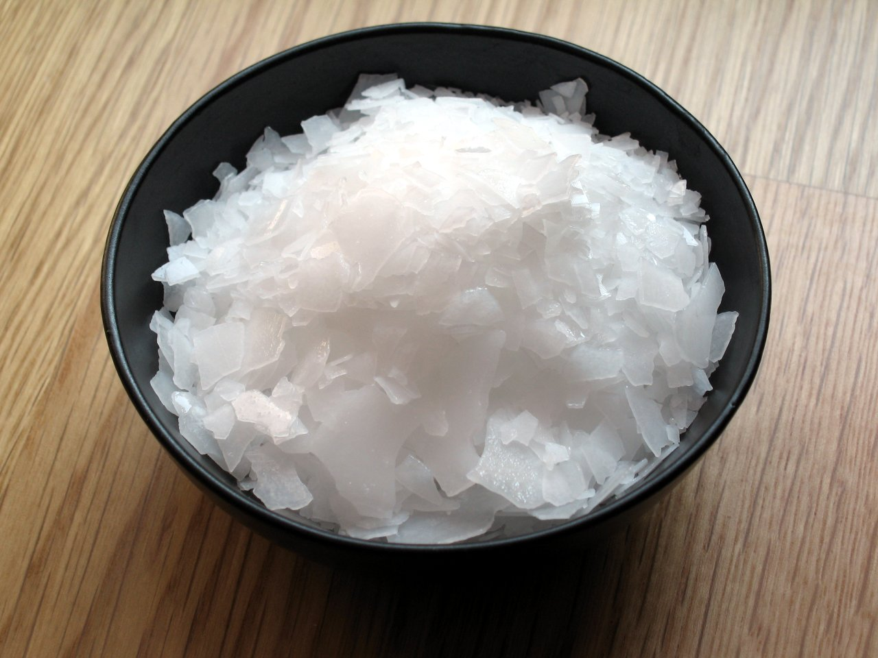 Nigari: natural magnesium chloride, extracted from sea salt